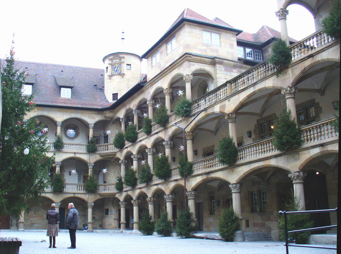 Stuttgart Altes Schloss Innenhof Photo self made by user:Enslin at 5 JAN 2006 in Stuttgart